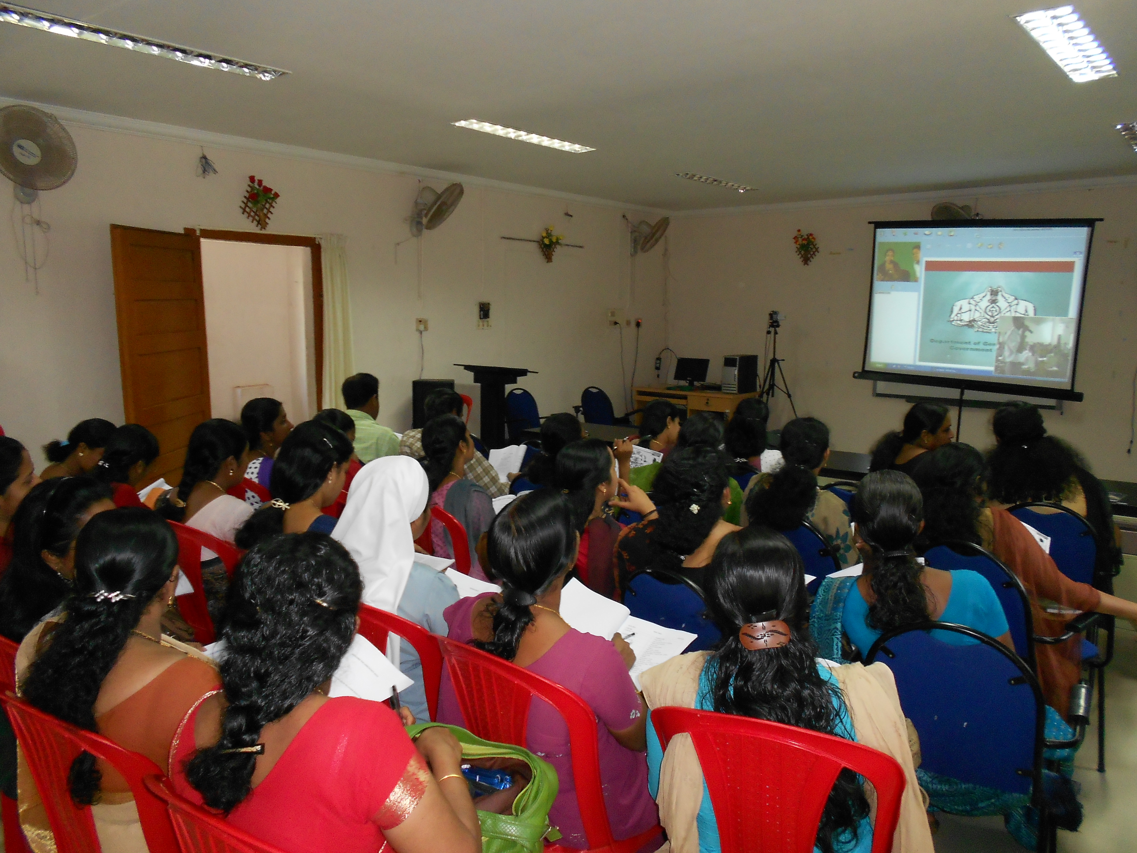 video conference class for english teachers at IT @ chool Kollam